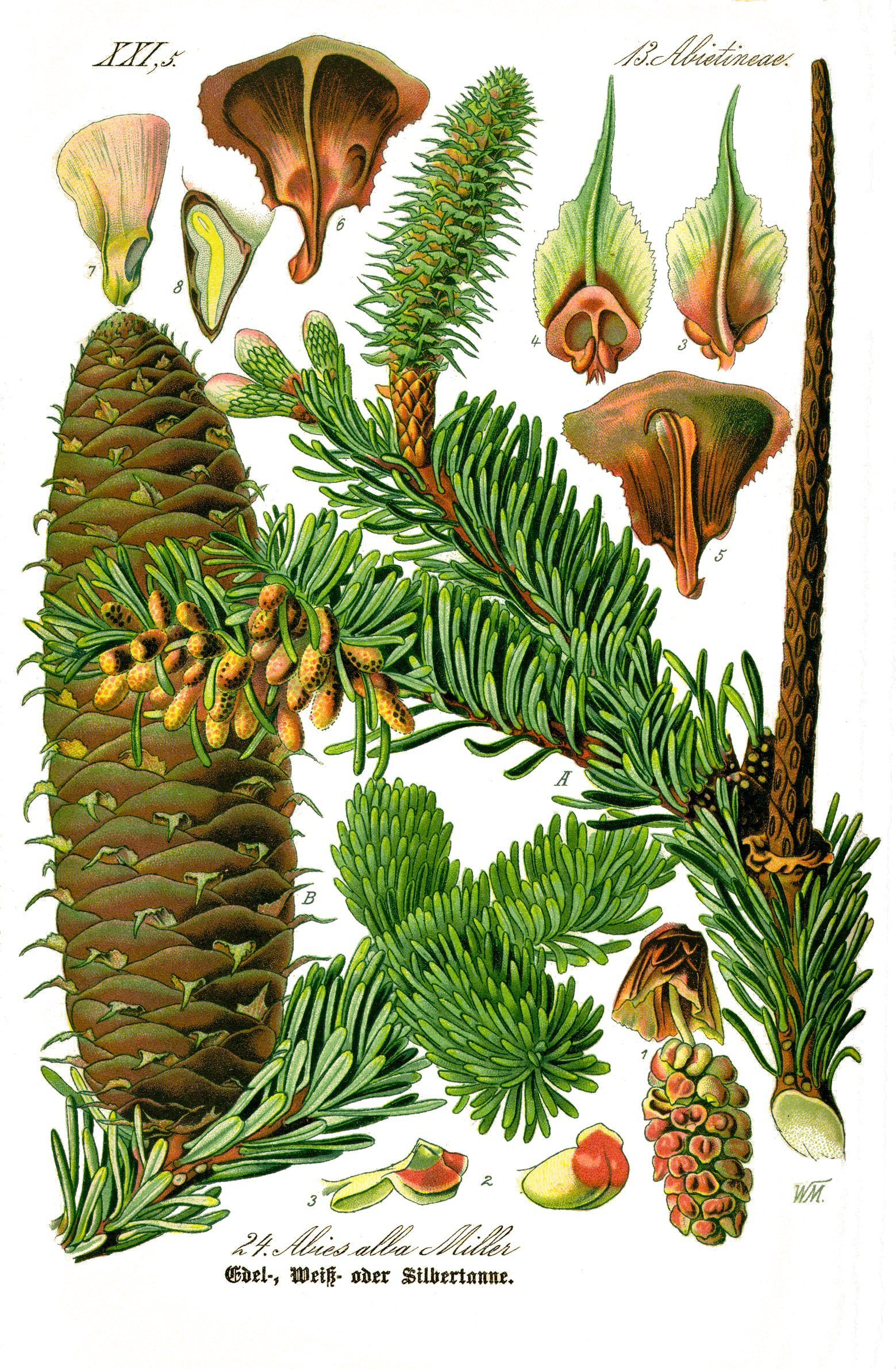 Abies alba, Clean version of Image:Illustration_Abies_alba0.jpg Name Abies alba Family Pinaceae